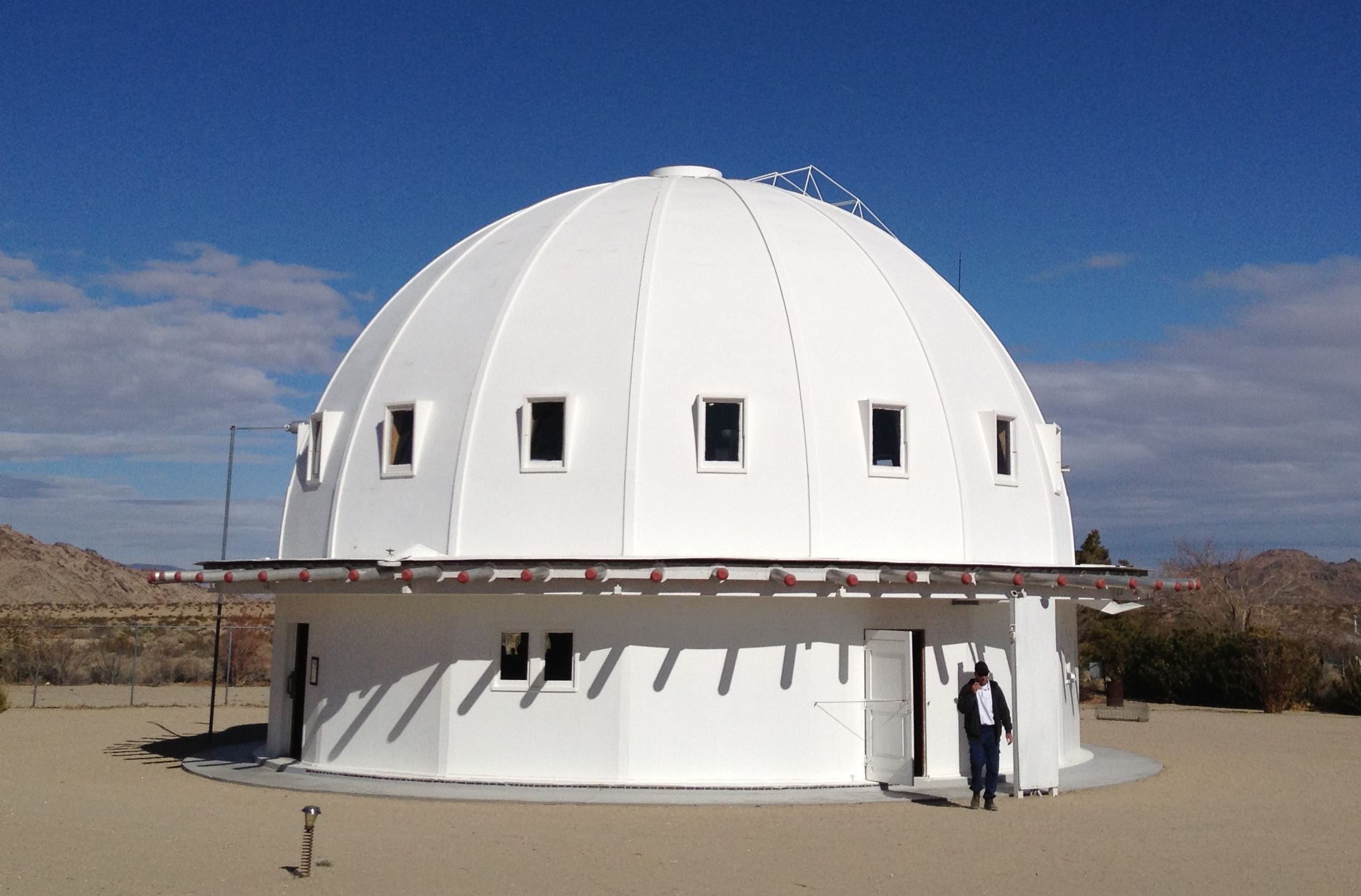 Photo of The Integratron in Landers, California, taken in January 2012.